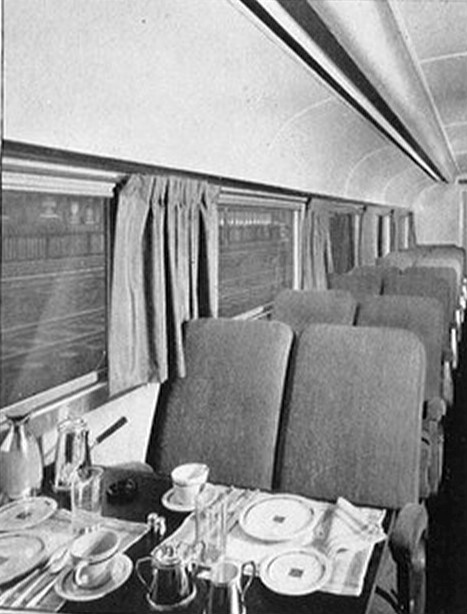 Photo illustrating how meals were served on the Pioneer Zephyr; similar to airline service. The flyer says "Meals from the grill are served upon tables set up at your chair."